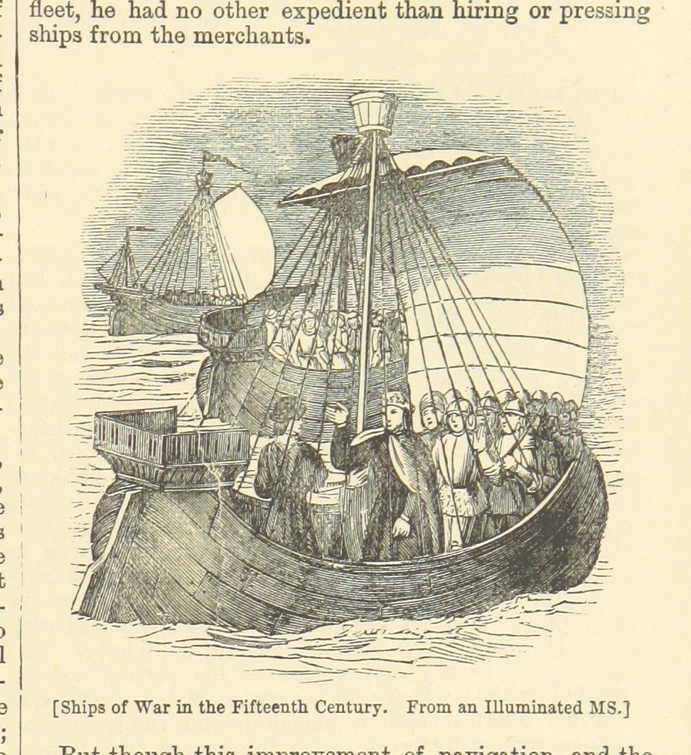 Image taken from: Title: "The Imperial History of England, comprising the entire work of D. Hume ... brought down to the present time by W. C. Stafford and H. W. Dulcken. With engravings ... and ... woodcuts", "History of England" Author: Hume, David Contributor: DULCKEN, Henry William. Contributor: Stafford, Wm. C. (William C.) Shelfmark: "British Library HMNTS 9503.i.2." Volume: 01 Page: 463 Place of Publishing: London Date of Publishing: 1891 Publisher: Ward, Lock & Co. Issuance: monographic Identifier: 001765236 Explore: Find this item in the British Library catalogue, 'Explore'. Download the PDF for this book (volume: 01) Image found on book scan 463 (NB not necessarily a page number) Download the OCR-derived text for this volume: (plain text) or (json) Click here to see all the illustrations in this book and click here to browse other illustrations published in books in the same year. Order a higher quality version from here.